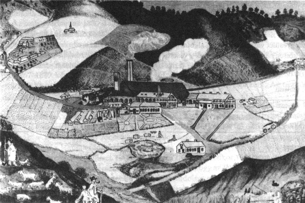 Ózd Metallurgical Works, drawing about 1847–50